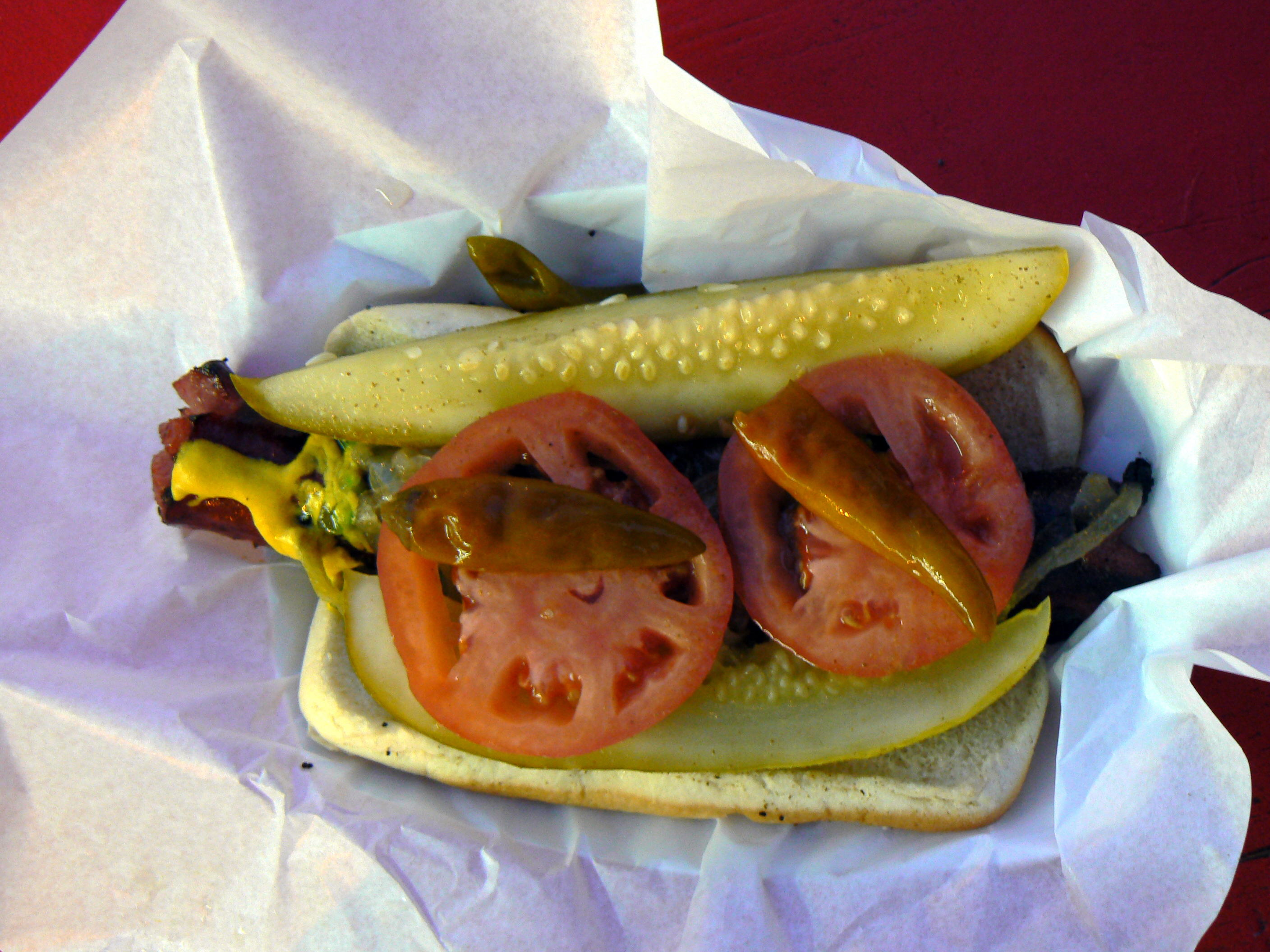 Polish Dog, Chicago Style At the Wiener Circle, on Clark.